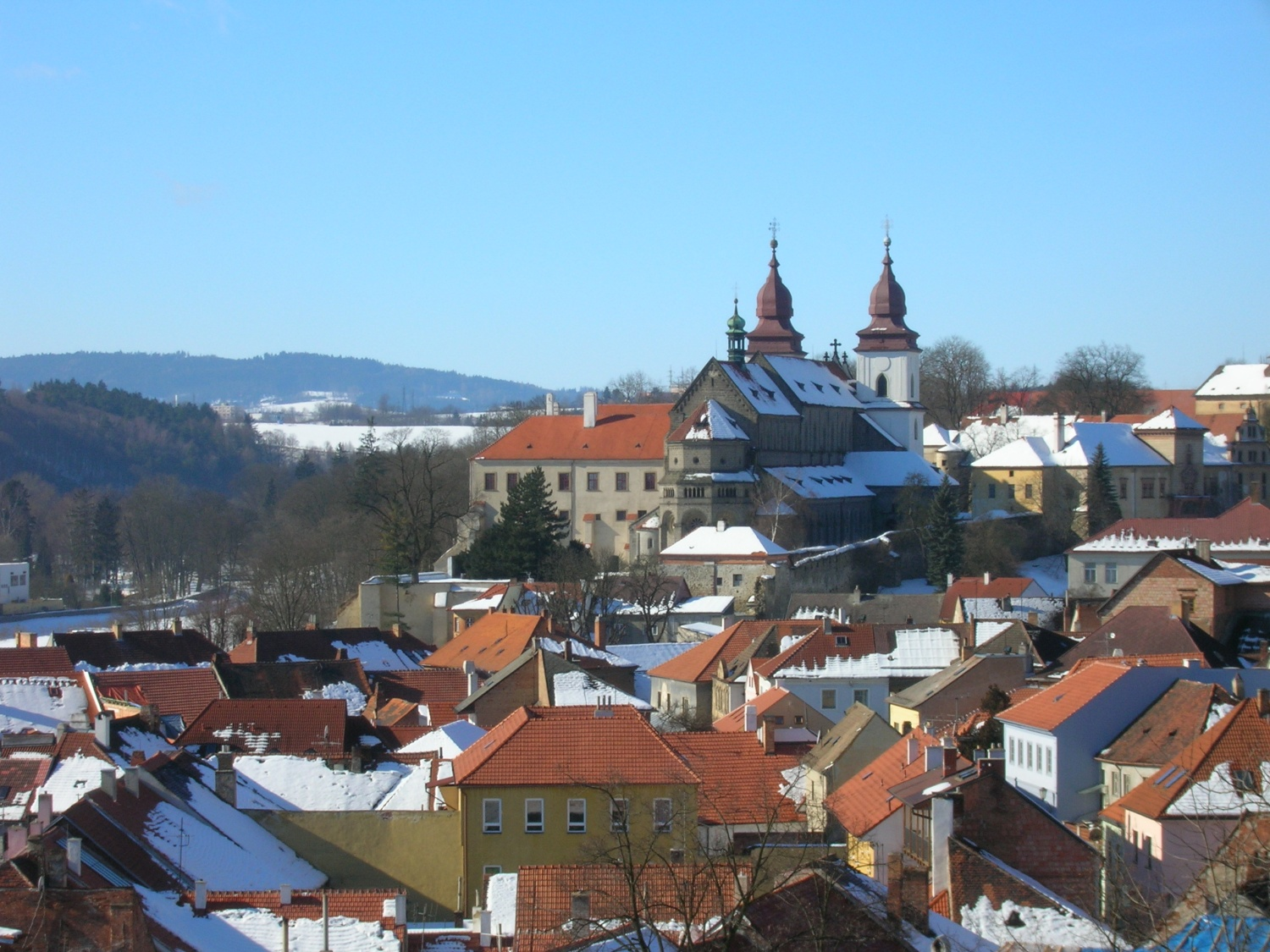 Třebíč-Podklášteří. Castle and St Procopius' Basilica.